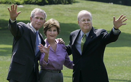 President George W. Bush stands with Mrs. Laura Bush and Deputy Chief of Staff Karl Rove on the South Lawn Monday, August 13, 2007, shortly after his longtime friend and senior advisor announced his resignation.